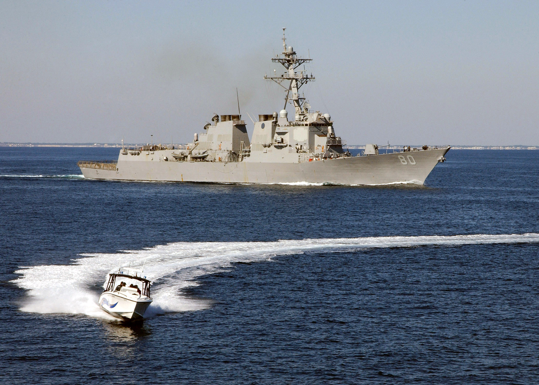 040310-N-4374S-017 At sea aboard USS Roosevelt (DDG 80) – The Arleigh Burke-class guided missile destroyer USS Roosevelt (DDG 80) and a small boat participate in a simulated small boat attack exercise (SWARMEX). Roosevelt is part of the USS John F. Kennedy (CV 67) Carrier Strike Group (CSG) and is currently taking part in a Composite Training Unit Exercise (COMPTUEX), which is an intermediate level training exercise, designed to forge ships in the Kennedy CSG into a cohesive fighting team.